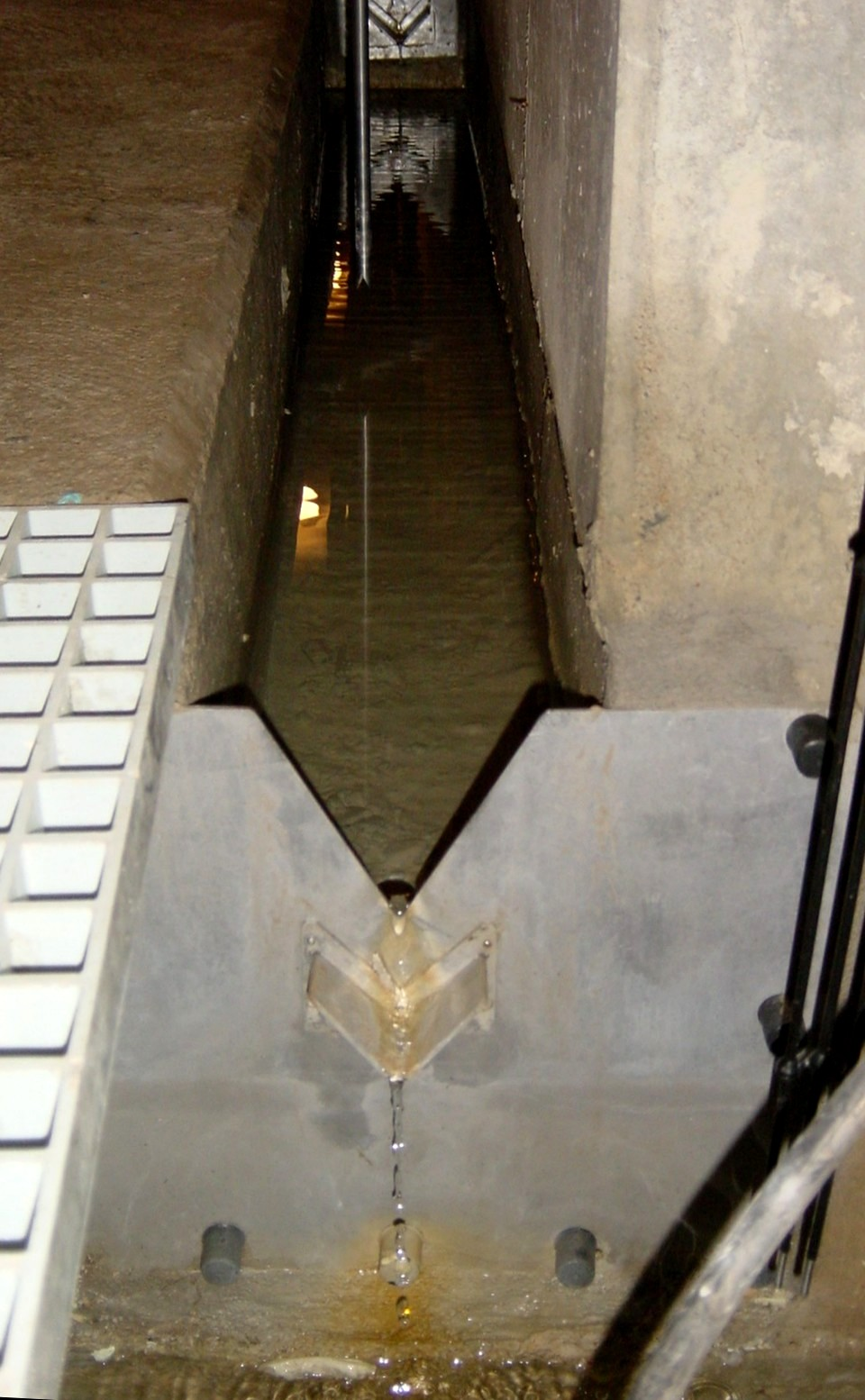 Thomson weir